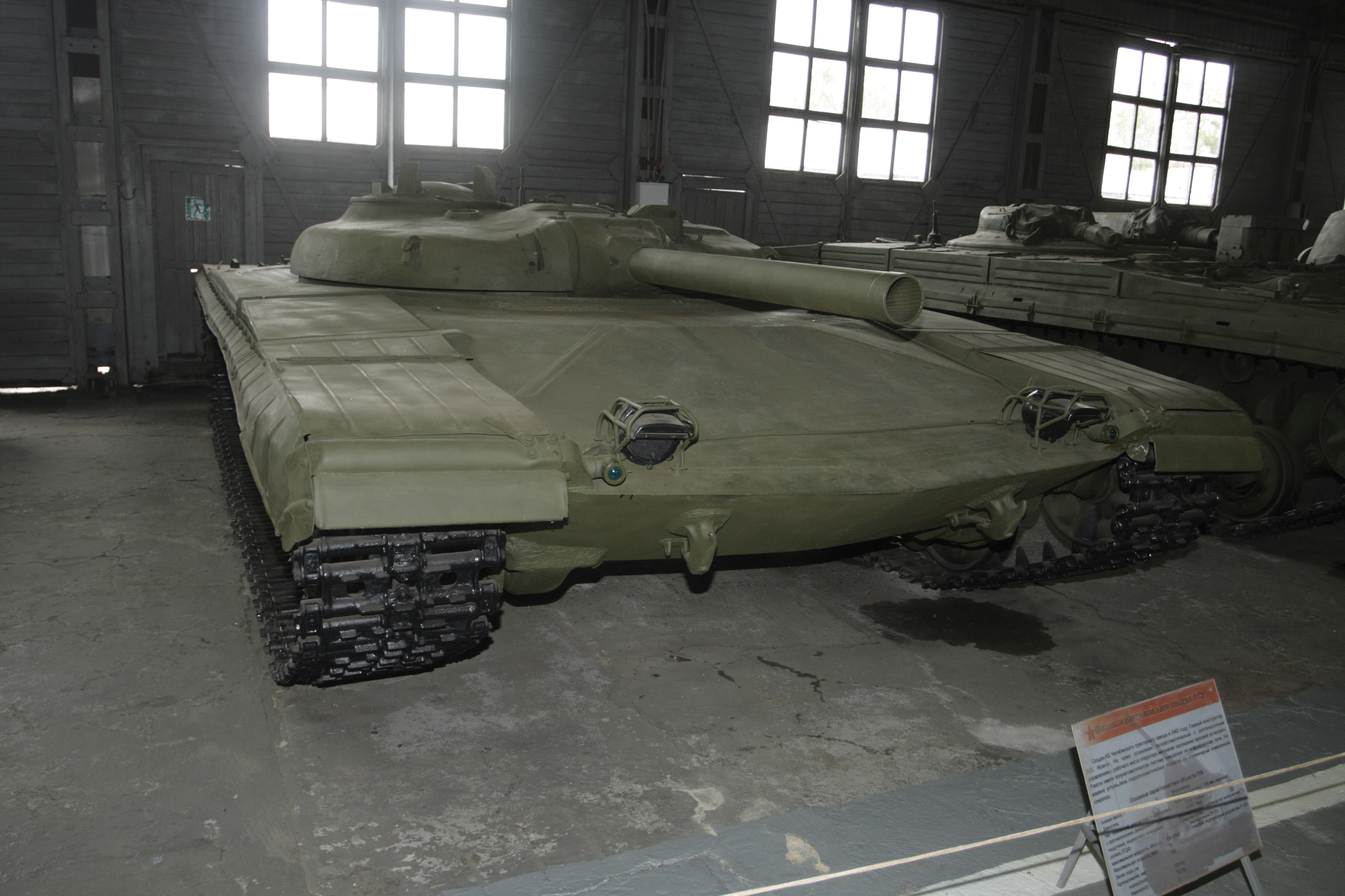 Object 775 (anti-tank rocket launcher on the basis of T-64) in Kubinka Tank Museum